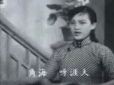 A screenshot of Chinese singer Zhou Xuan singing "The Wandering Songstress" in the 1937 Chinese film Street Angel.